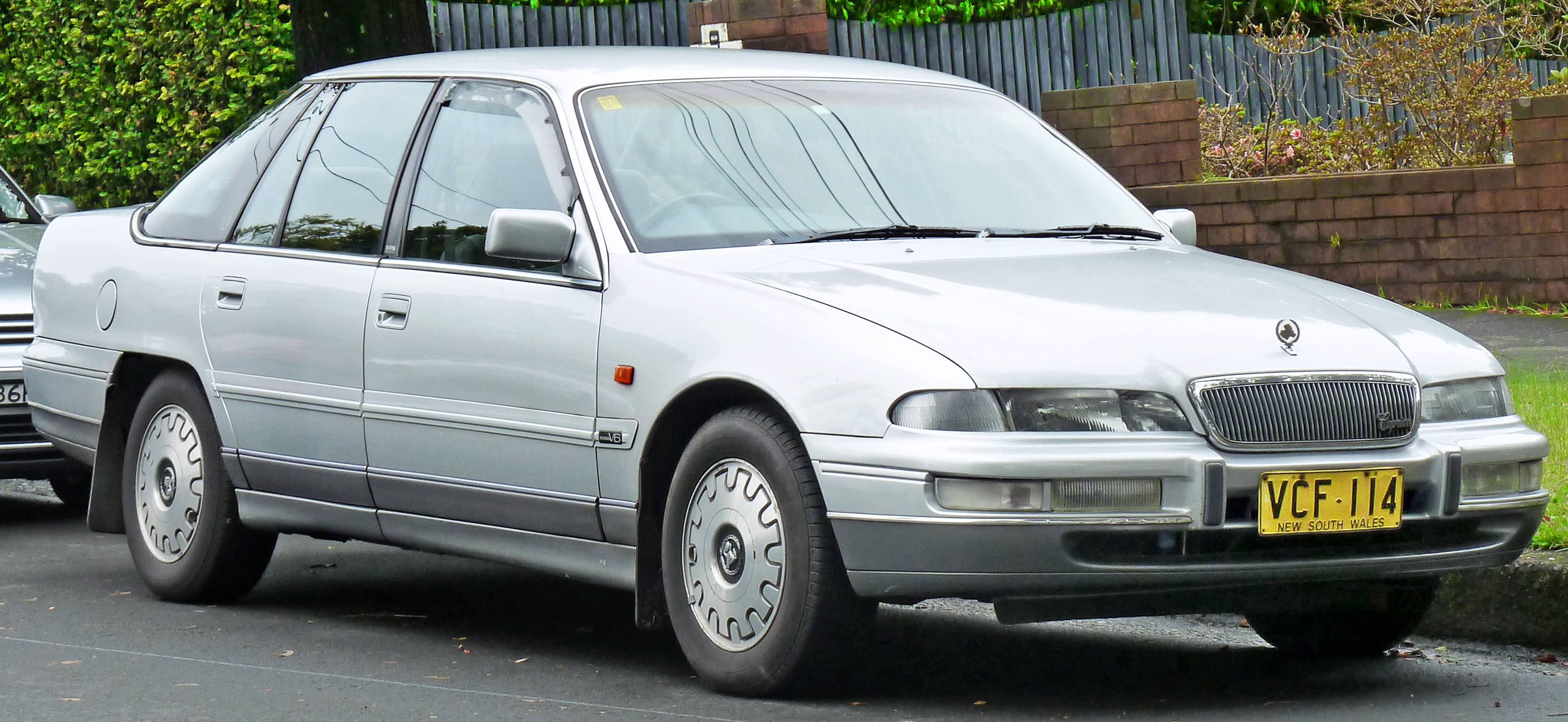 1995–1996 Holden VS Caprice sedan. Photographed in Gordon, New South Wales, Australia.